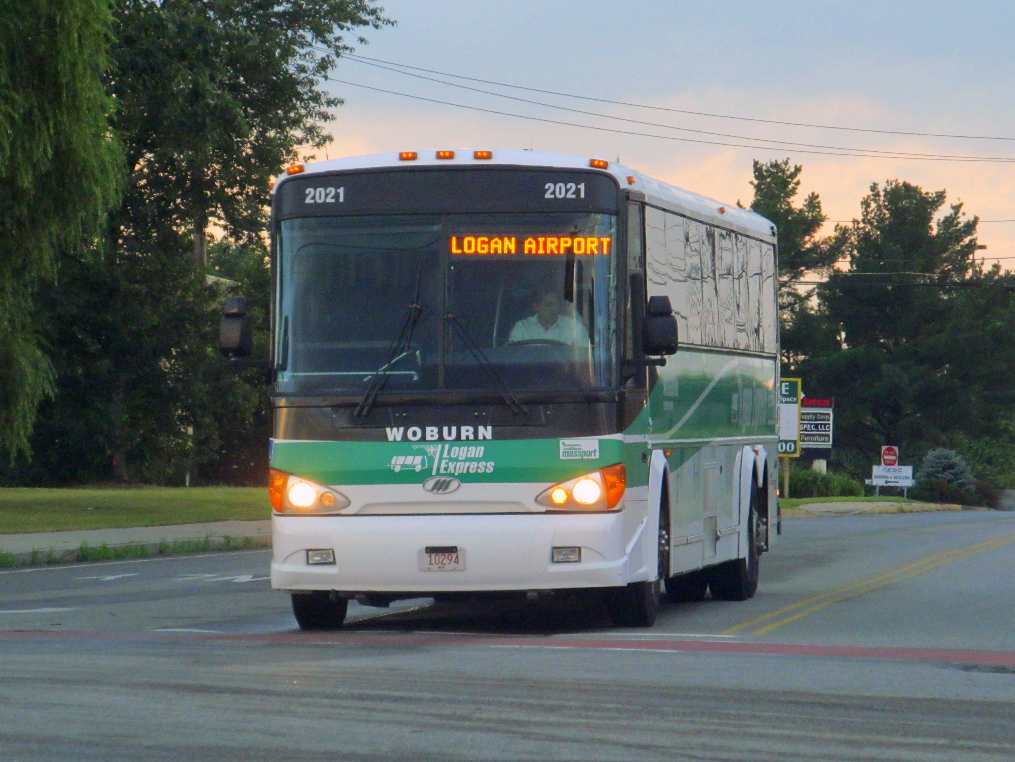 A Logan Express bus leaves Anderson RTC in Woburn and waits to enter I-93 for the trip to Logan International Airport